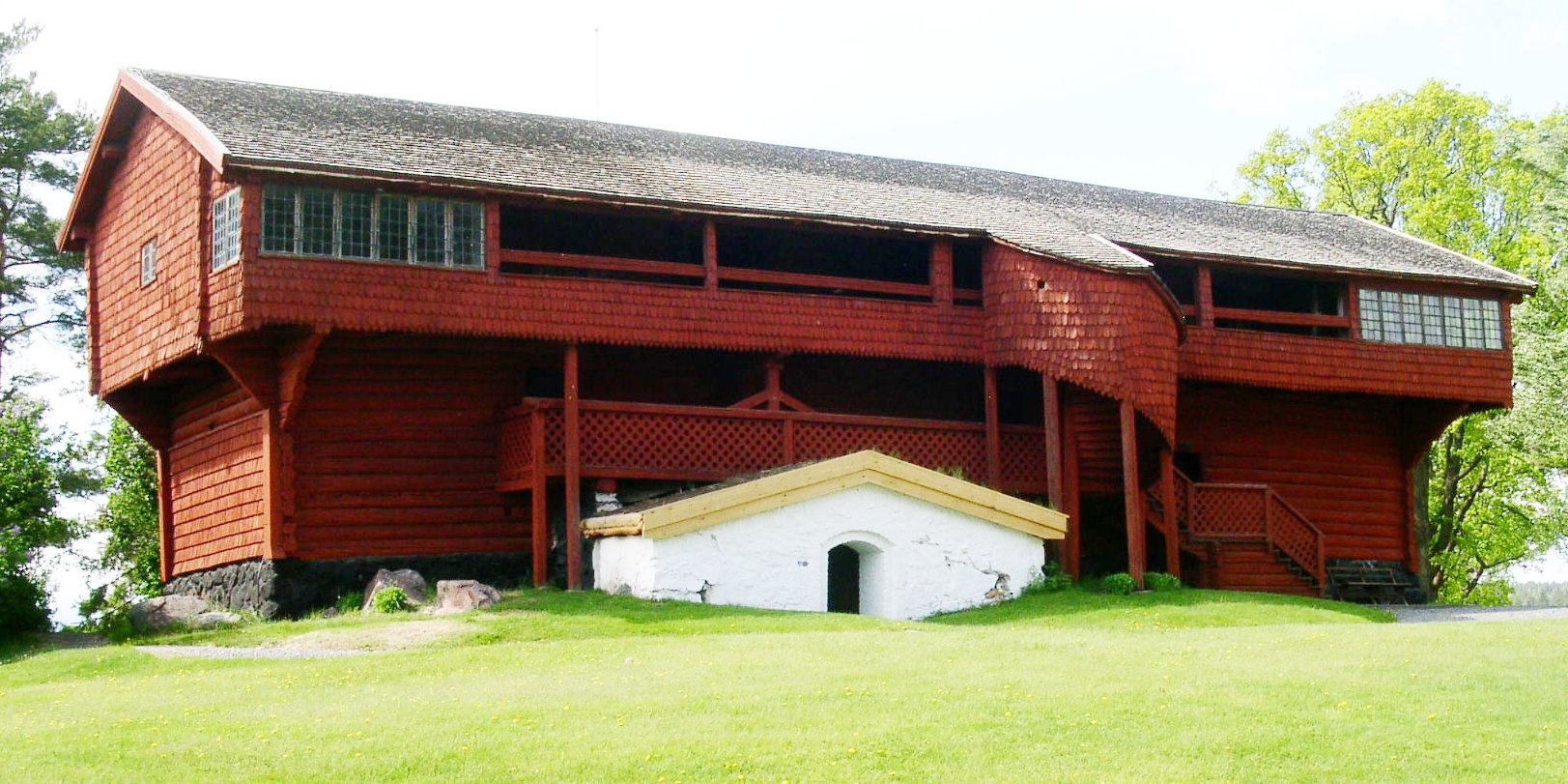 [Ornässtugan]